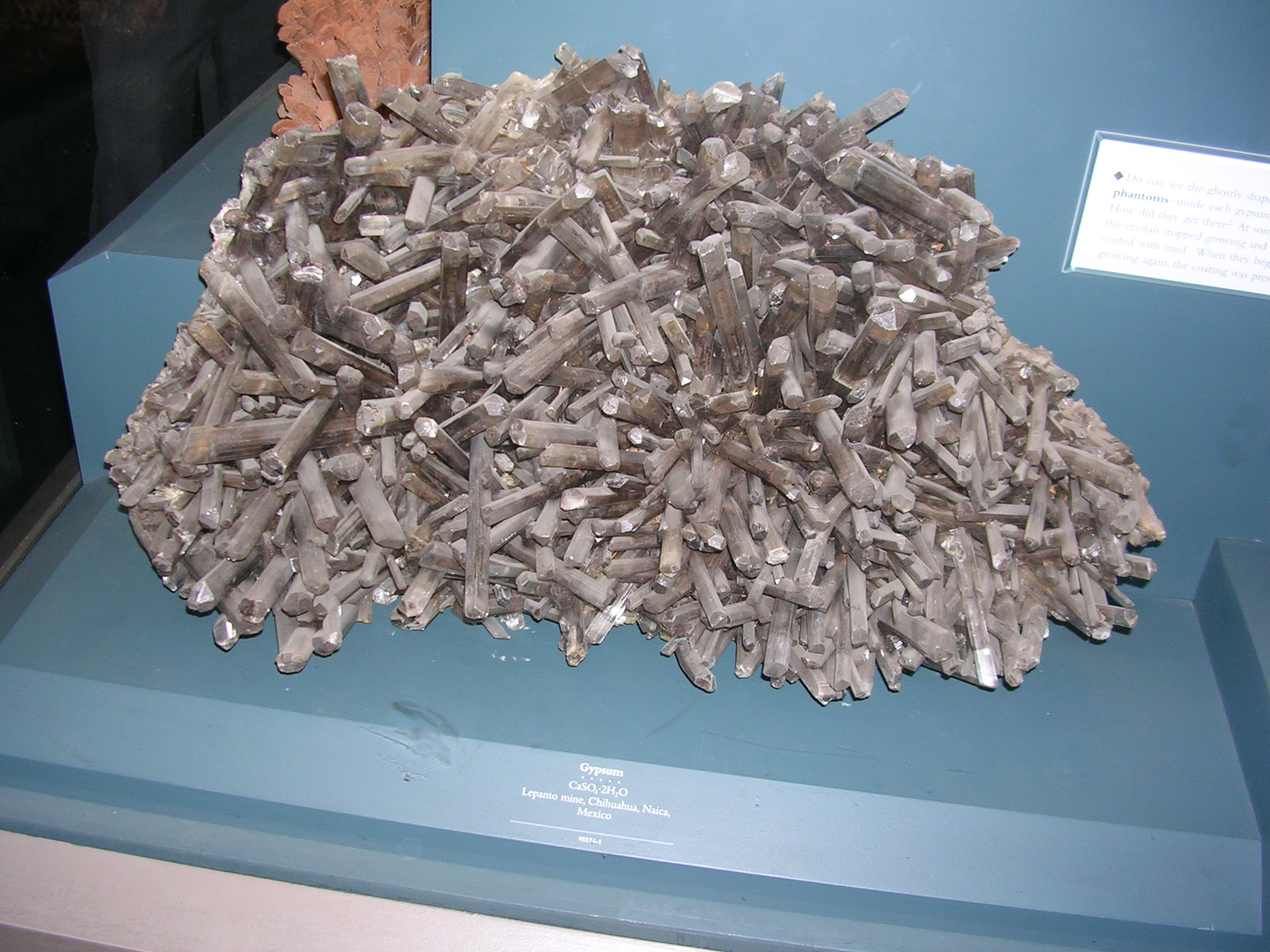 Gypsum from the Museum of Natural History